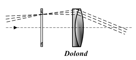 Dolond eyepiece.